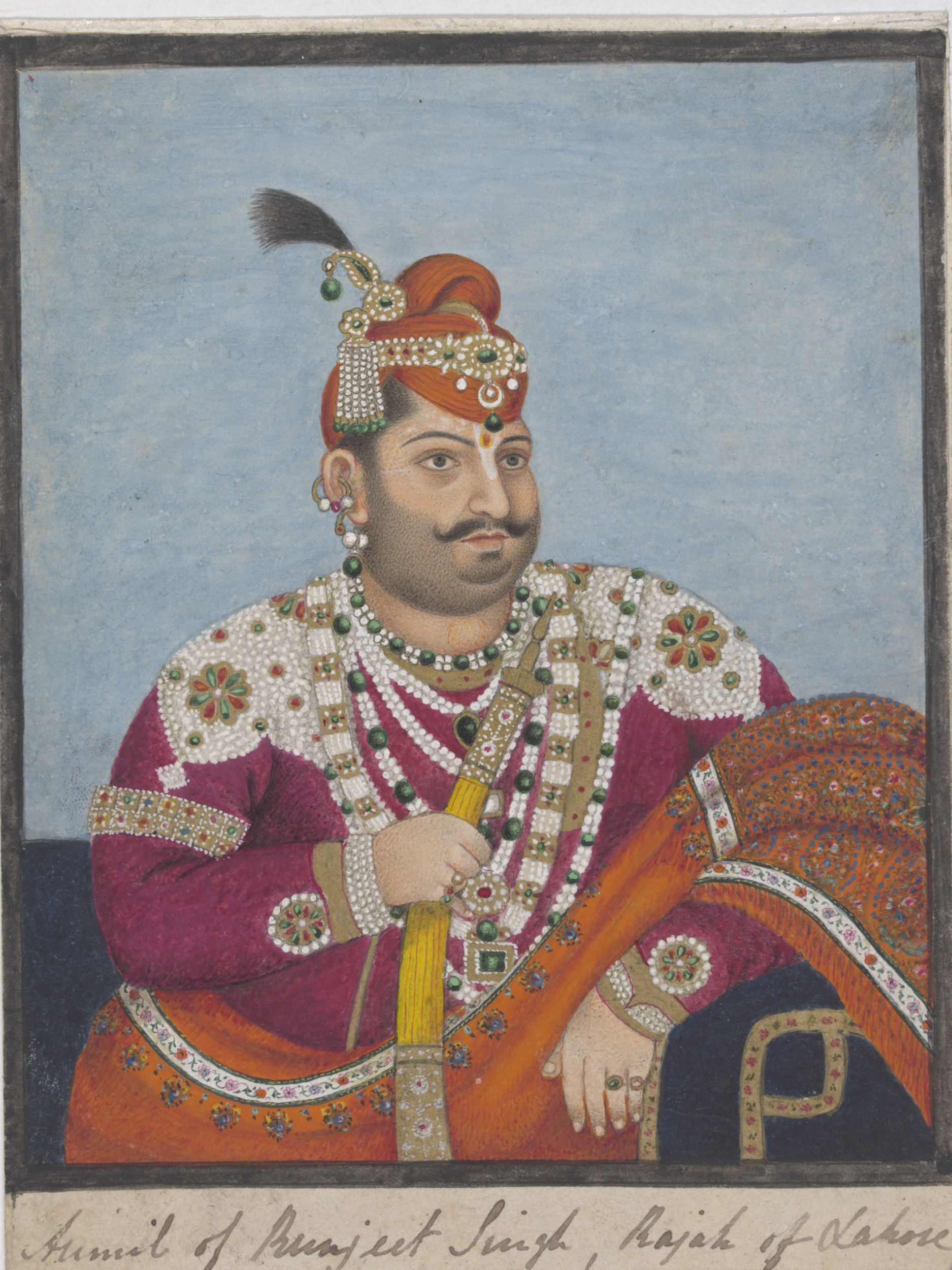 This Company painting is a three-quarter length portrait of Ishwari Sen (1784-1826), Raja of Mandi in the Panjab Hills. He holds a huqqa-stem, with a Kashmir shawl draped over his left arm. The painting was probably acquired by Lord Amherst during his visit to Delhi in 1827 and is misidentified on the front as being of the Sikh leader Maharaja Ranjit Singh; a Persian inscription on the back correctly identifies the sitter as Ishwari Sen. 'Company paintings' were produced by Indian artists for Europeans living and working in the Indian subcontinent, especially British employees of the East India Company. They represent a fusion of traditional Indian artistic styles with conventions and technical features borrowed from western art. Some Company paintings were specially commissioned, while others were virtually mass-produced and could be purchased in bazaars.